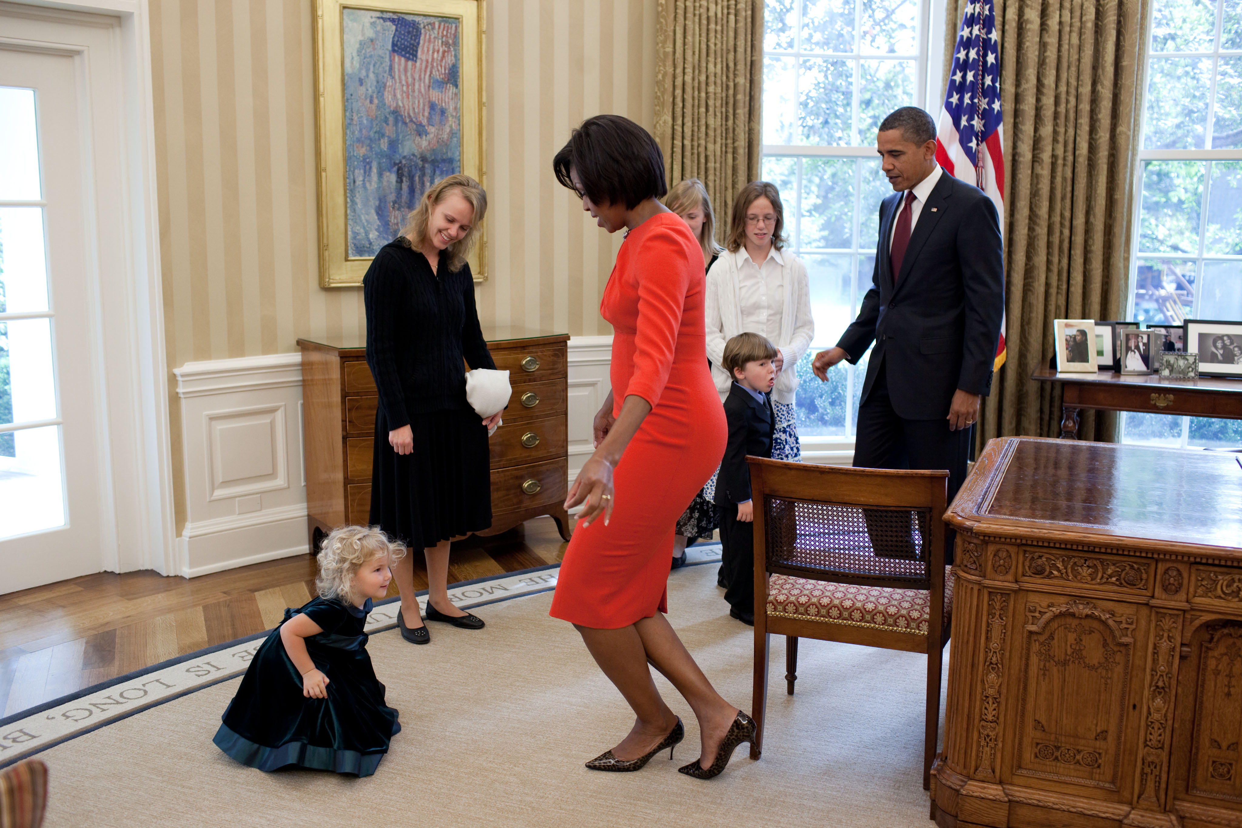 (P100610PS-0200) — United States First Lady Michelle Obama curtsies with Lynne Silosky, a niece of posthumous Medal of Honor awardee, Staff Sergeant Robert J. Miller, in the Oval Office on 6 October 2010.